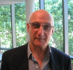 David Malouf picture at book meeting. (Taken by Dariusz Peczek on 28 October 2006)